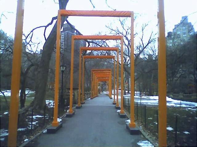 "The Gates" while under construction. This picture was taken on February 8, 2005, from Cedar Hill, looking North East towards Fifth Avenue.